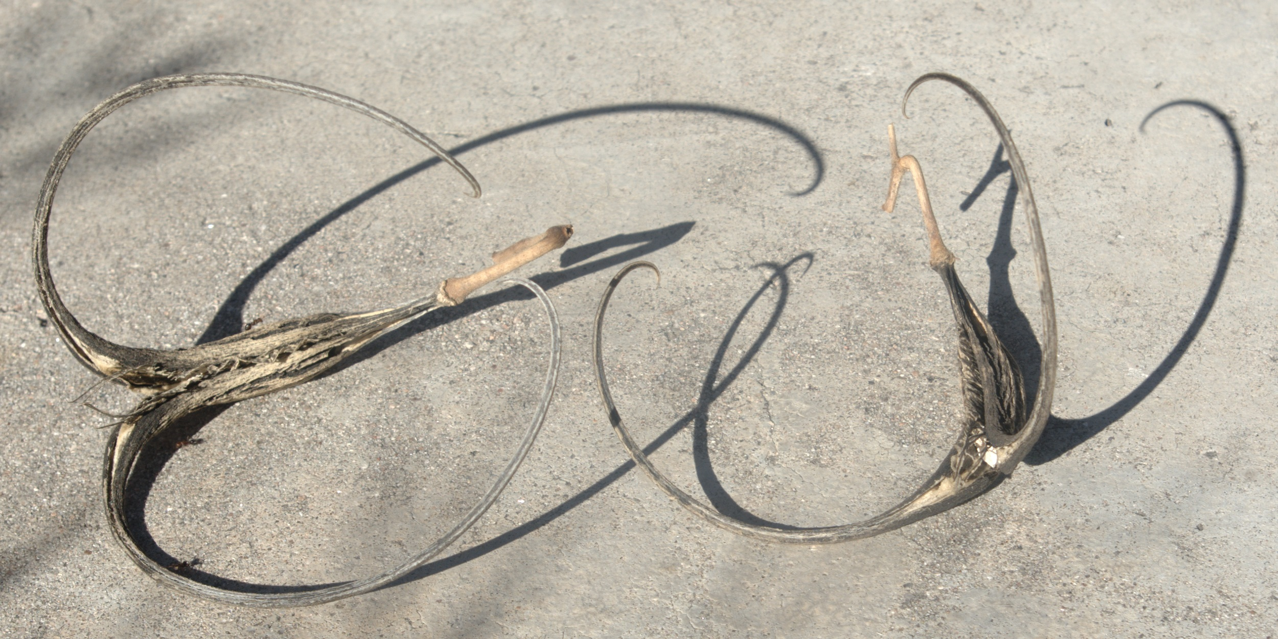 Fruits of doubleclaw or red devil's claw, Proboscidea parviflora, white-seeded variety cultivated by the Sonora Indians according to Plants of the Southwest, P. parviflora ssp. parviflora var. hohokamiana according to [1]. The center part of the "Y", excluding the stem, is about 7.5 cm long. Some lightening and increased contrast.